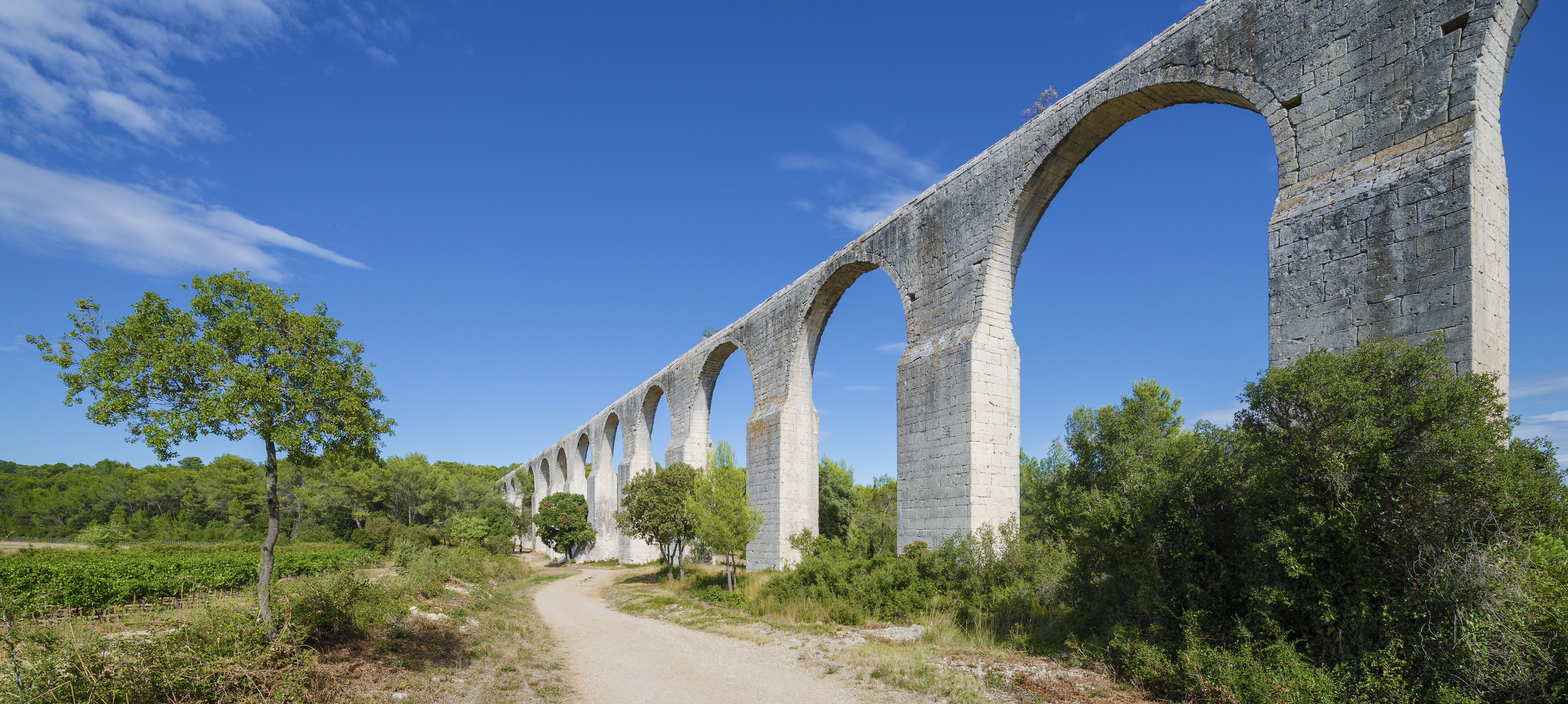 Aqueduc of Castries, the part of the Big Archs. Built during the second half of the XVIIth century by the engineer Pierre-Paul Riquet. Castries, Hérault, France. .